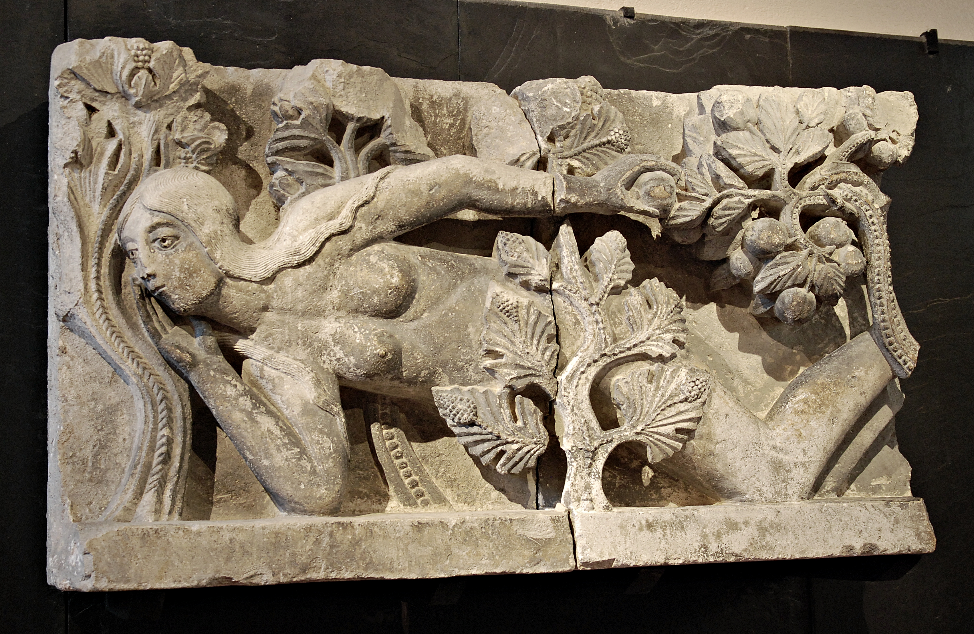 Eva by Gislebertus, from north portal, cathedral in Autun.